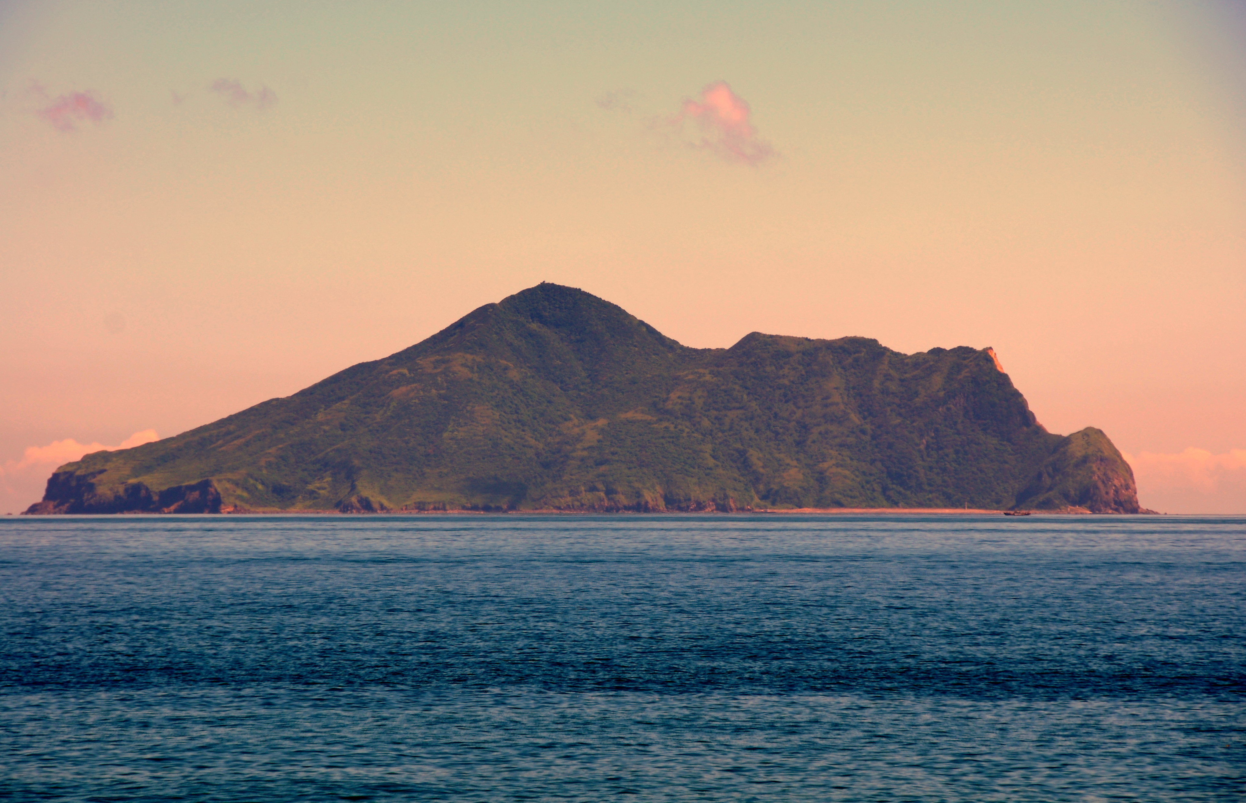 Looks out into the distance the Guishan Island complete picture.